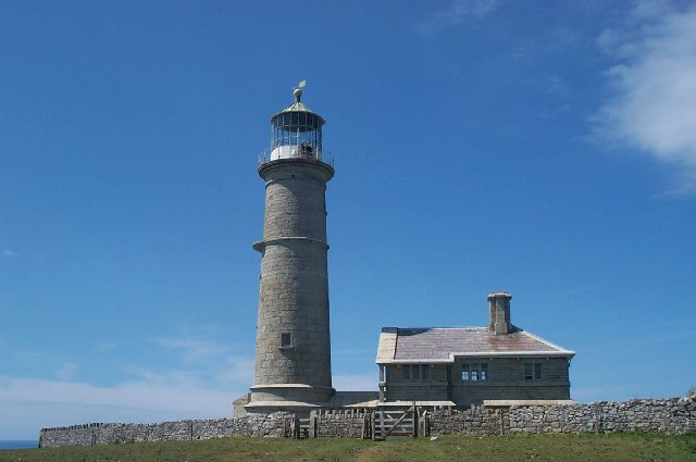 Lundy Old Lighthouse. This is the original lighthouse on Lundy, on the highest point of the Island. It was replaced by two, lower level, lighthouses at the North and South ends of the Island.